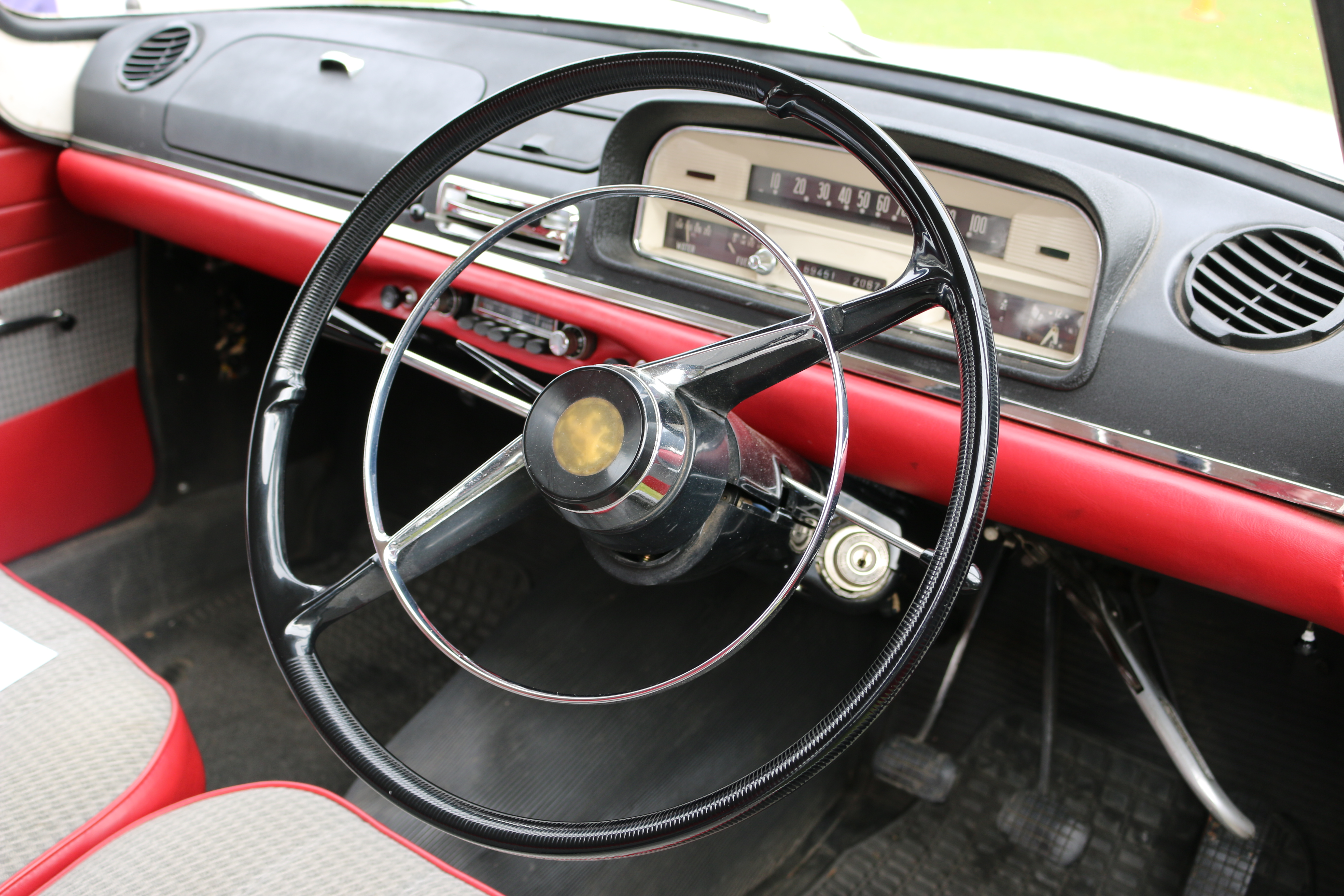 All French Day, Silverwater Park, NSW July 2016